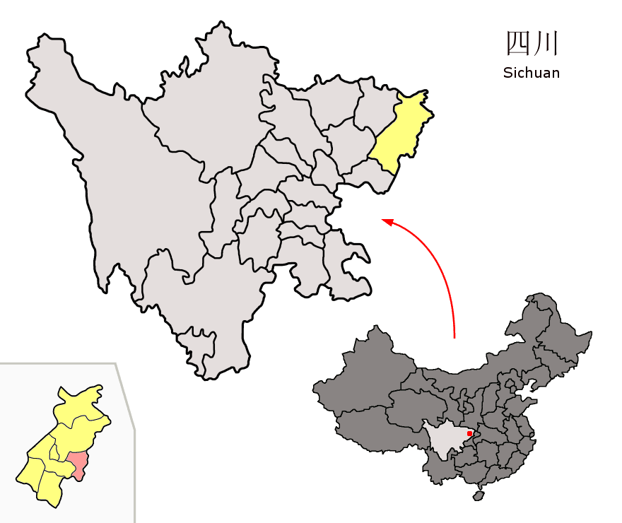 Location of Kaijiang County (pink) and Dazhou Prefecture (yellow) within Sichuan province of China Map drawn in october 2007 using various sources, mainly : Sichuan province administrative regions GIS data: 1:1M, County level, 1990 Sichuan Counties map from